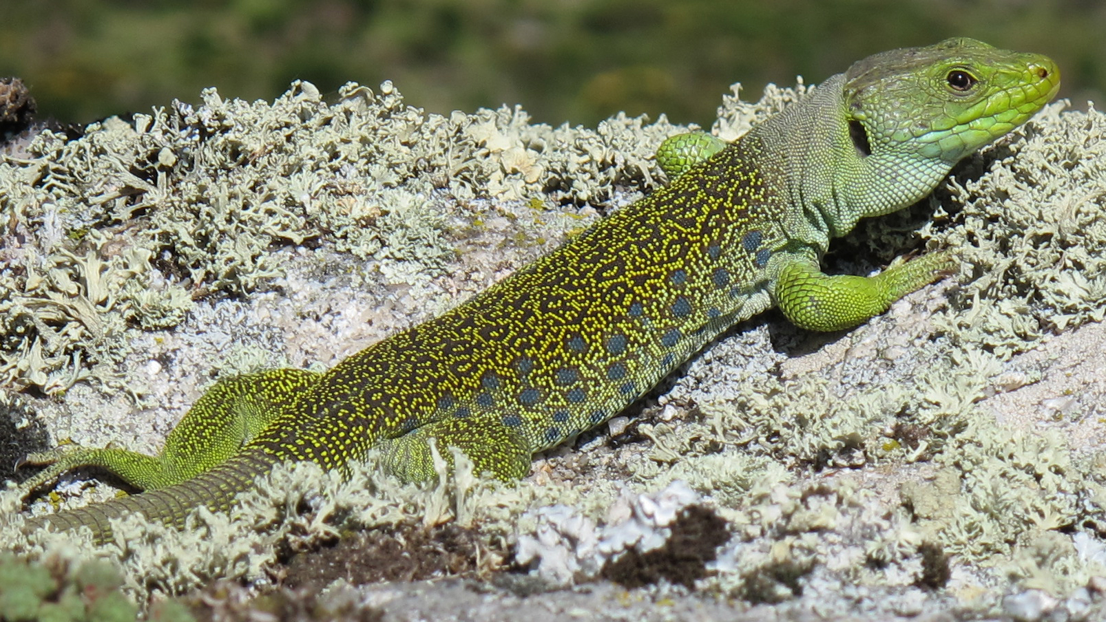 Ocellated Lizzard